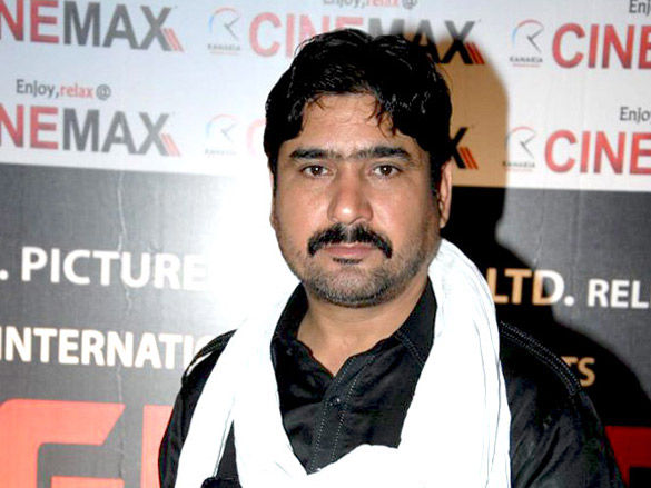 Yashpal Sharma